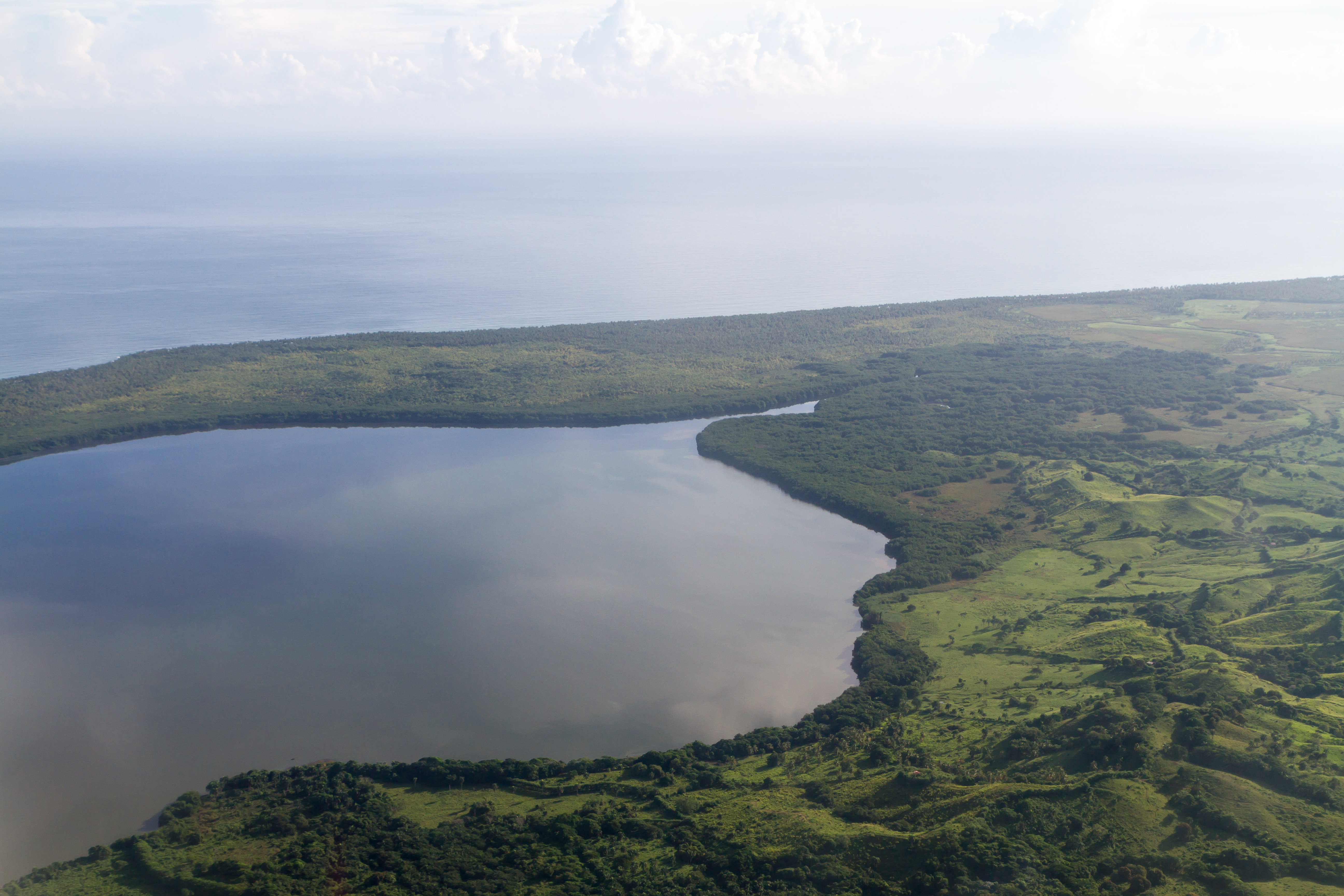 Miches, 24000, Dominican Republic